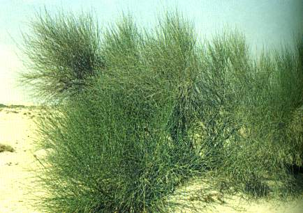 almarkh plant. Leptadenia Spartium: is a green shrub without leaves